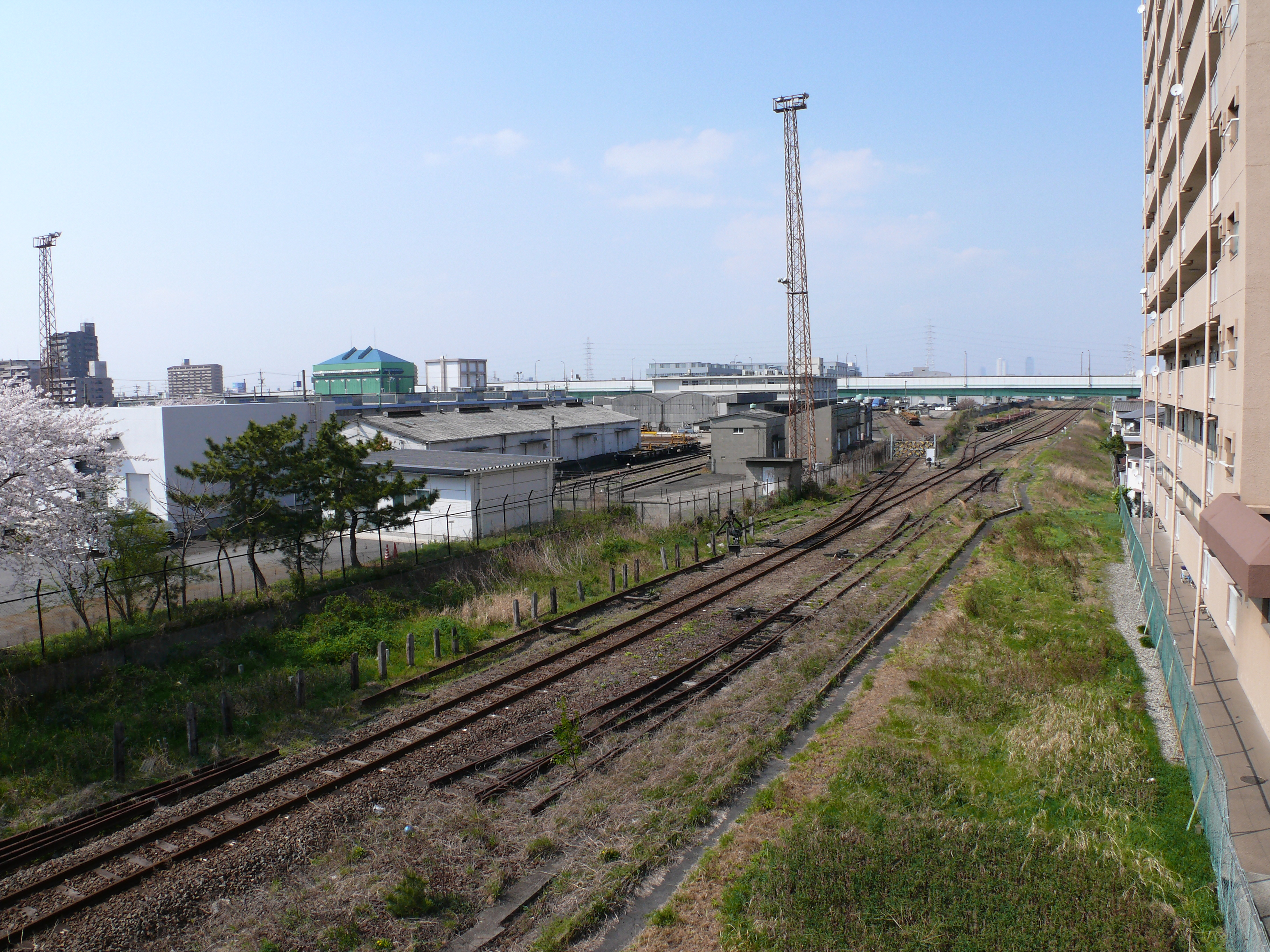 Japan Freight Railway Company Nagoya-Minato Station